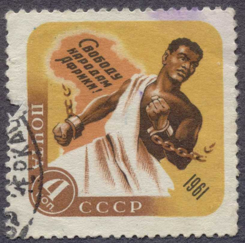 USSR stamp, 1961. Freedom peoples of Africa